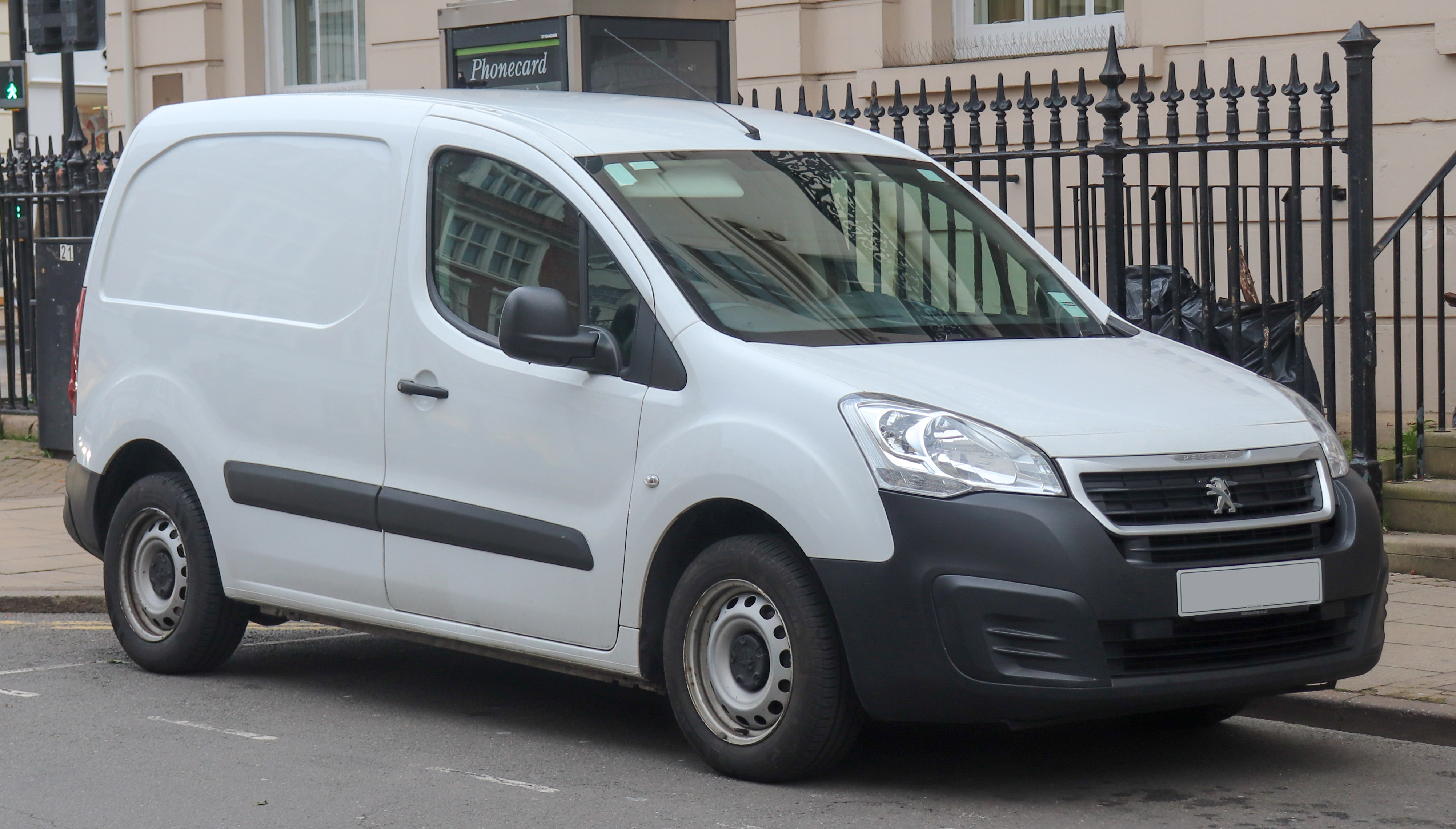 2017 Peugeot Partner S L1 BlueHDi 1.6 Front Taken in Leamington Spa